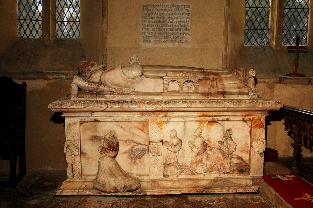 St Denys' parish church, Stonton Wyville, Leicestershire: alabaster chest tomb of Edmund Brudenell, died 1590. Alongside the father, a swaddled baby lies on its own tomb. (There is a similar arrangement at Exton, Rutland.)